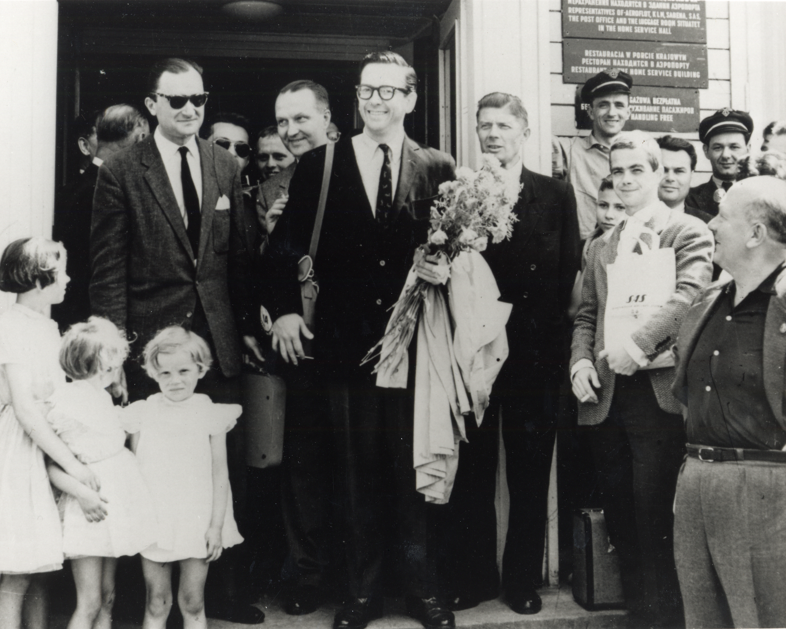 Willis Conover jazz producer and broadcaster on the Voice of America radio program, arrives in Poland for the first time.